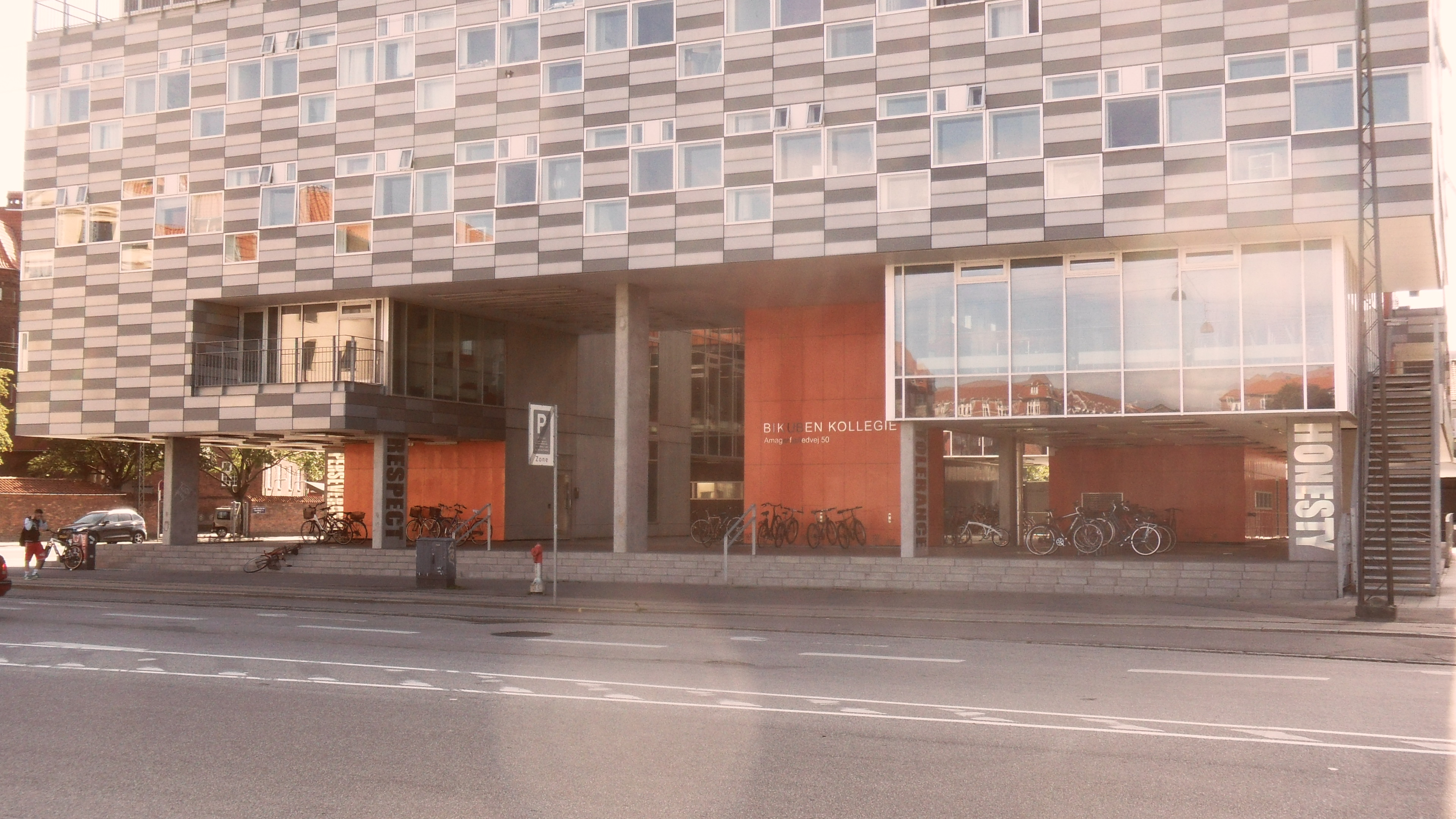 Bikuben Kollegiet Ørestad - seen from Njalsgade